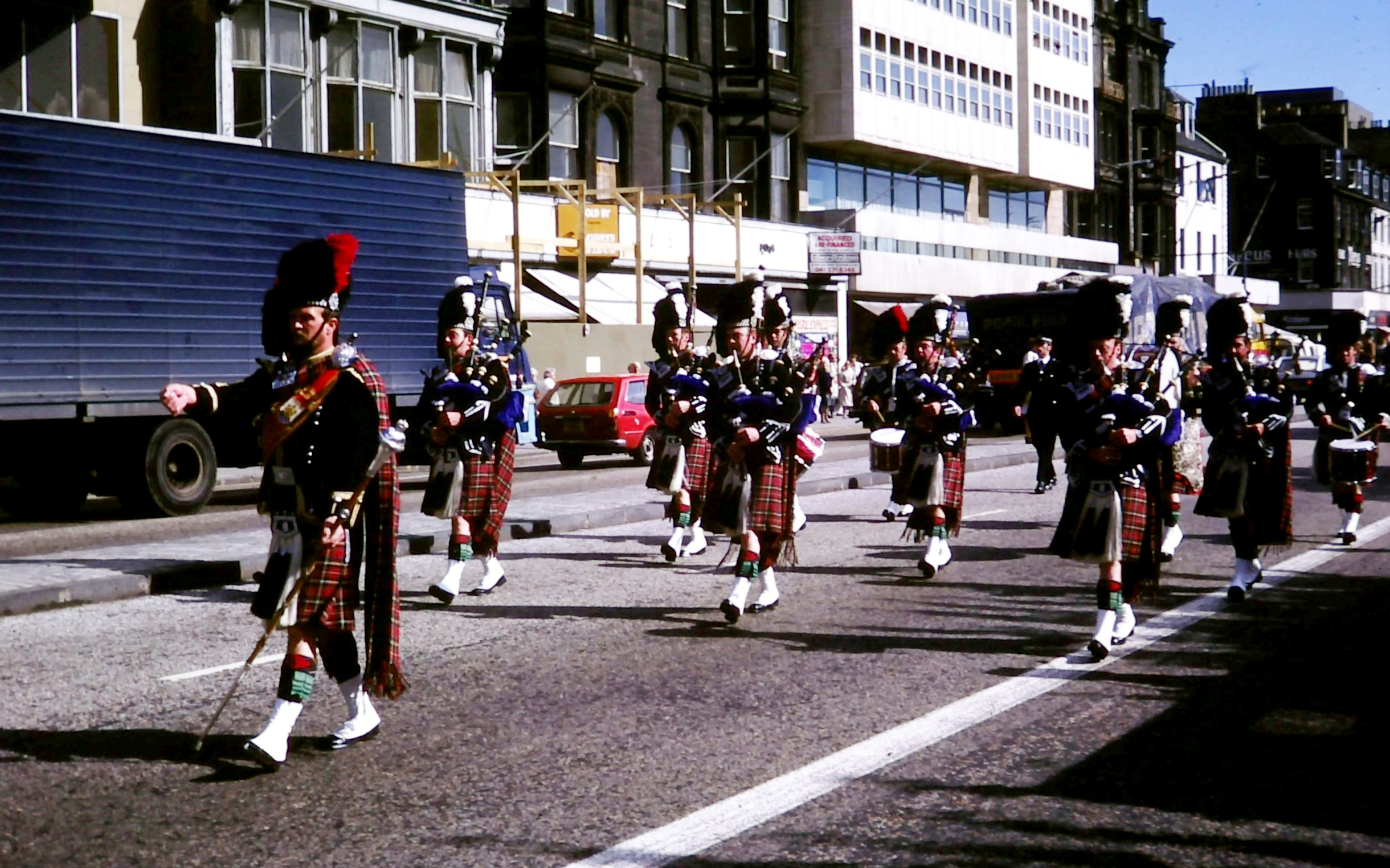 Lothian & Borders Police Pipe Band, formerly the Edinburgh City Police Pipe Band, marching along Princes Street in 1980